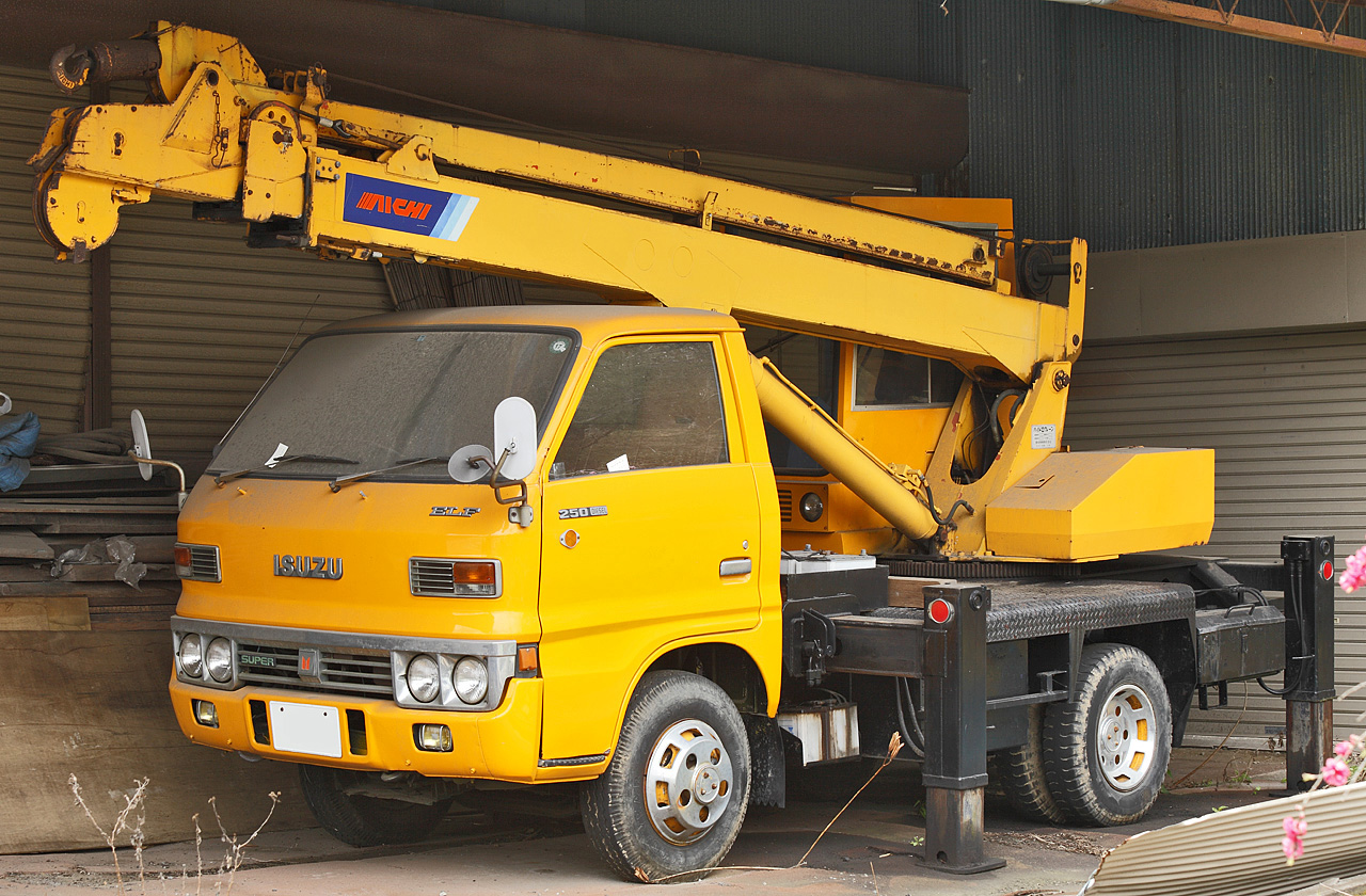 The third generation Isuzu Elf crane car.